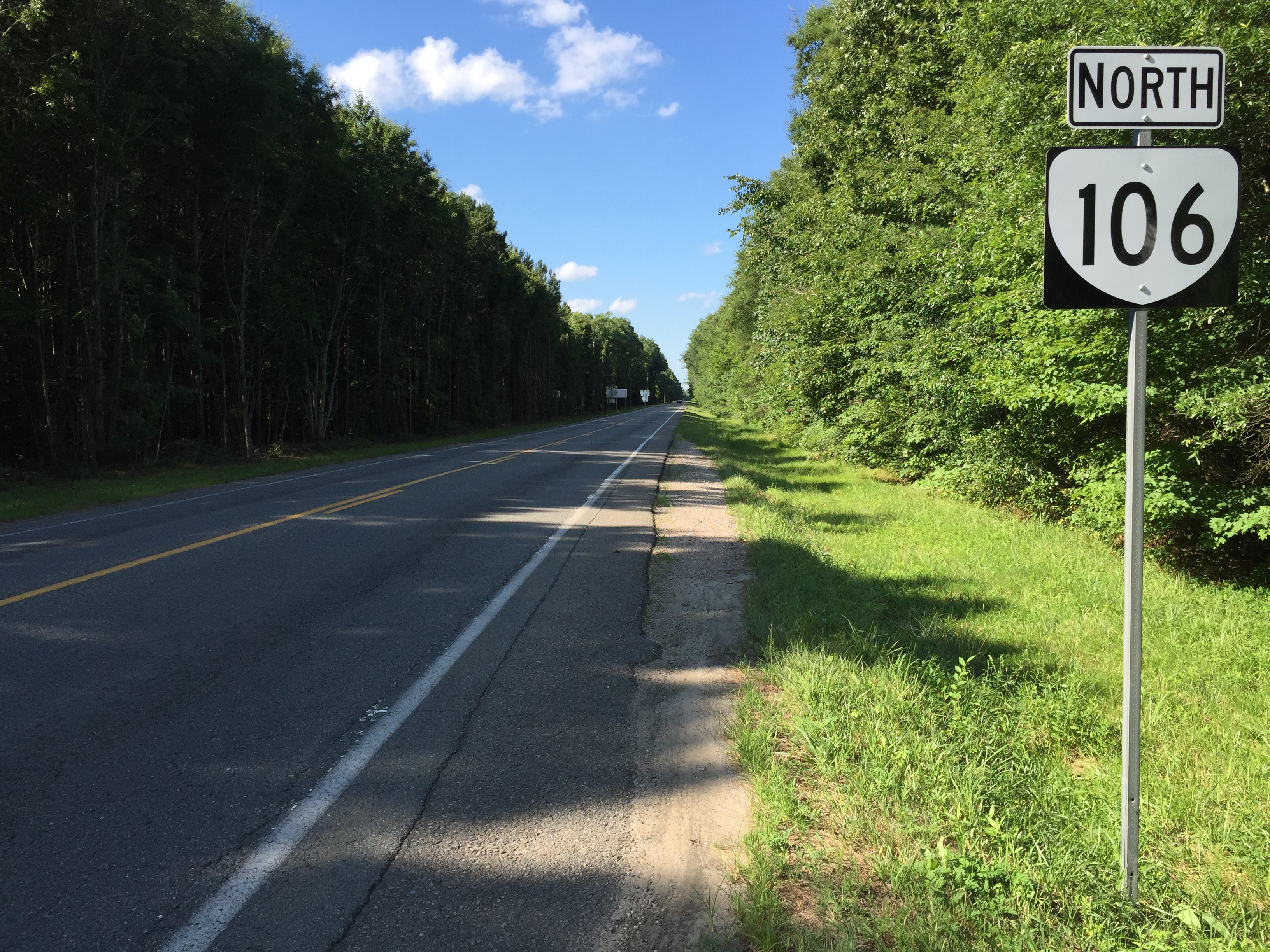 View north along Virginia State Route 106 (Roxbury Road) at Virginia State Route 5 and Virginia State Route 156 (John Tyler Memorial Highway) in southwestern Charles City County, Virginia